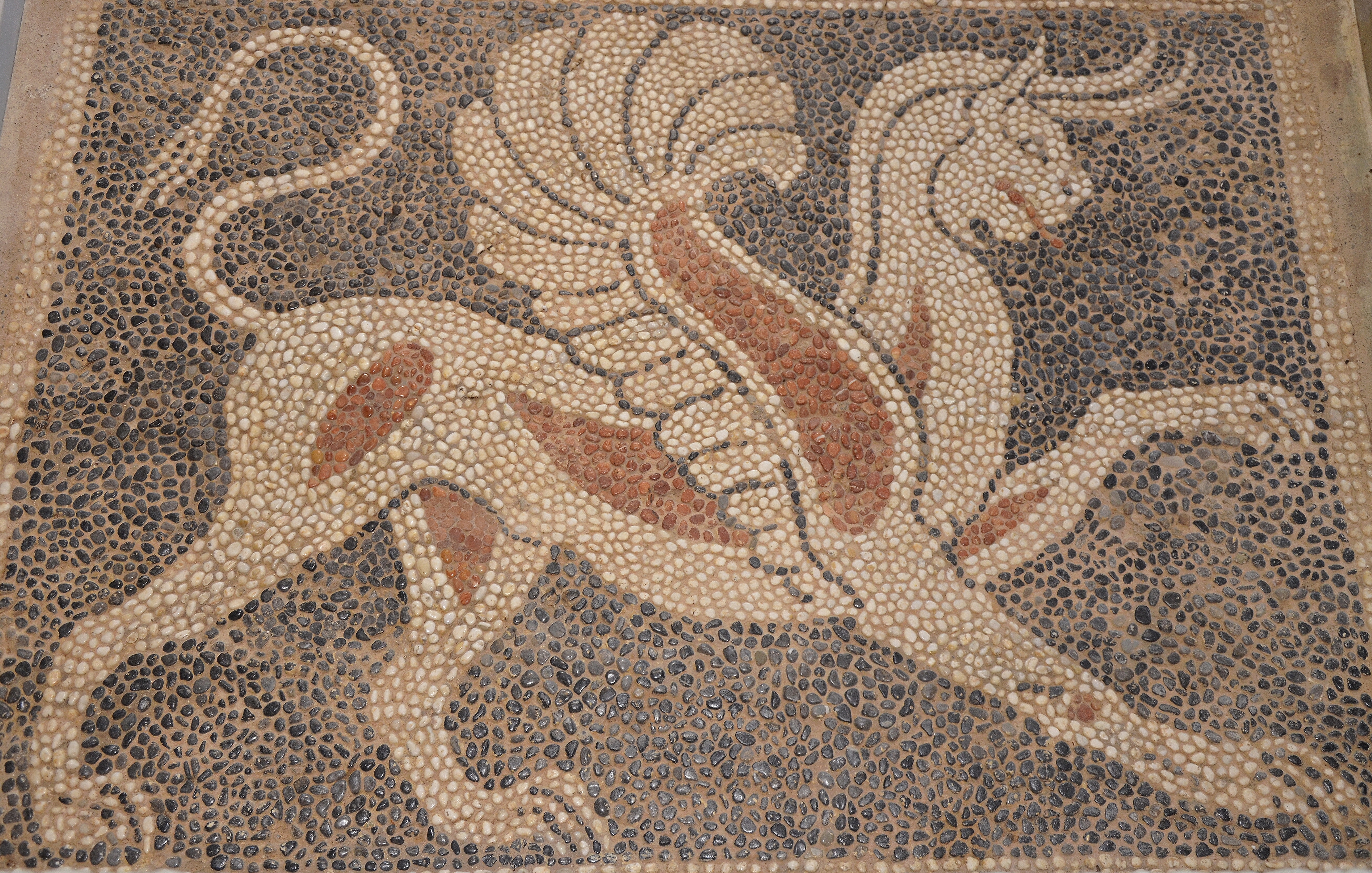 Pebble mosaic floor depicting a griffin, from Ancient Sikyon, second half of 4th century BC, Archaeological Museum of Sikyon, Greece